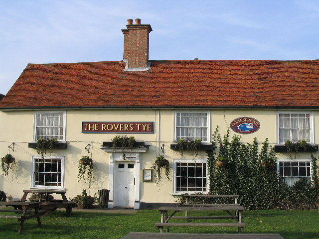 The Rovers Tye. Public House and Restaurant on Ipswich Road. The original building is 200 years old and has previously been a farmhouse and a butchers.